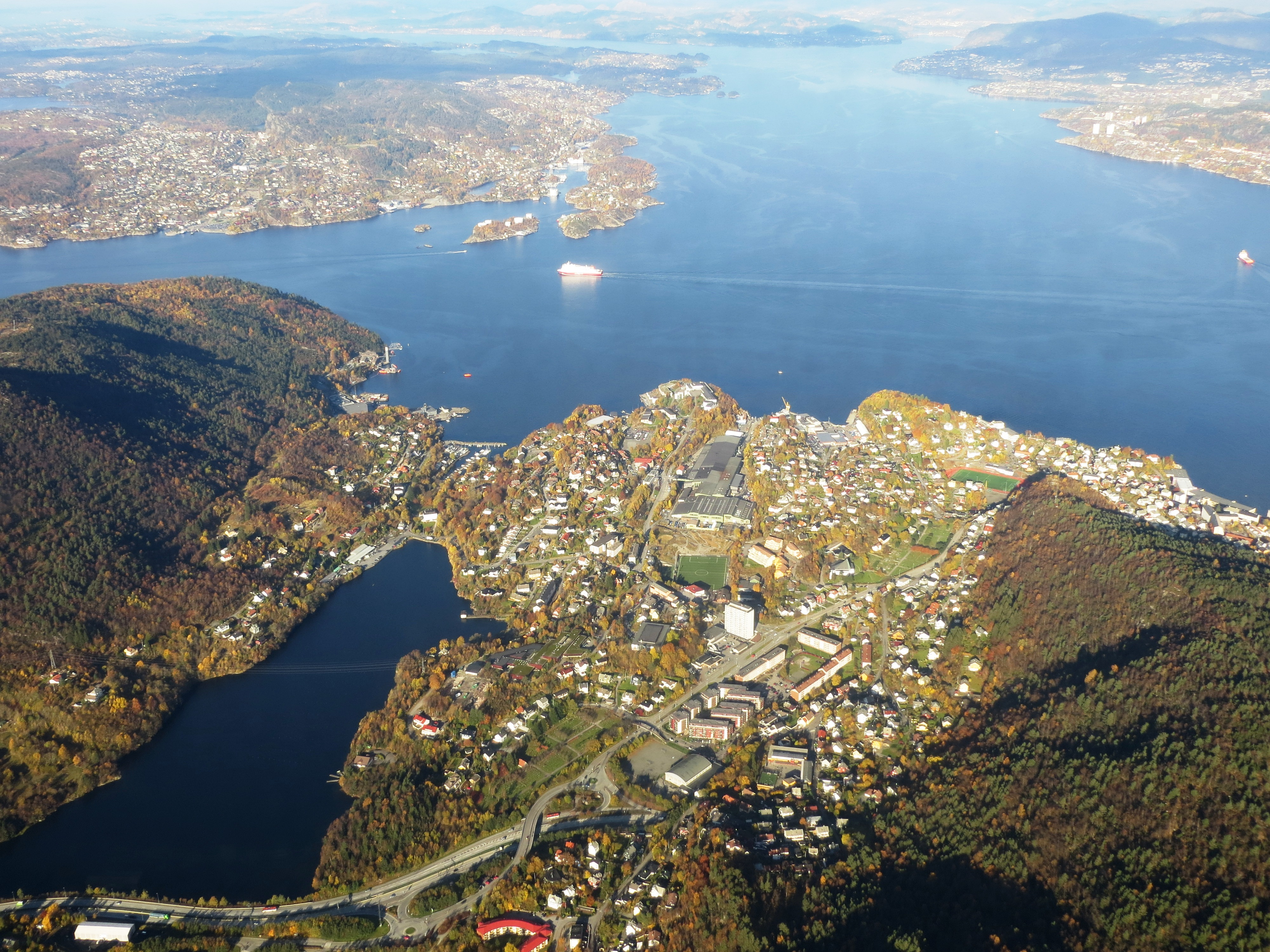 The Gravdal area in western Bergen, immediately west of Laksevaag. Here is the Naval War Academy of Bergen, and a population of c. 1.100.